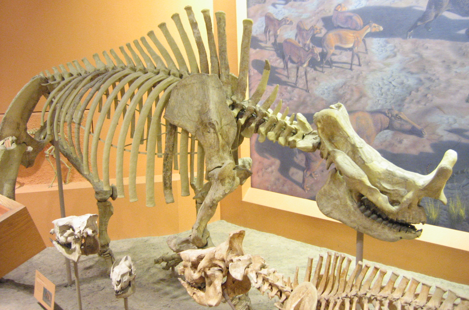 Brontotherium hatcheri fossil at the National Museum of Natural History, Washington, D.C.